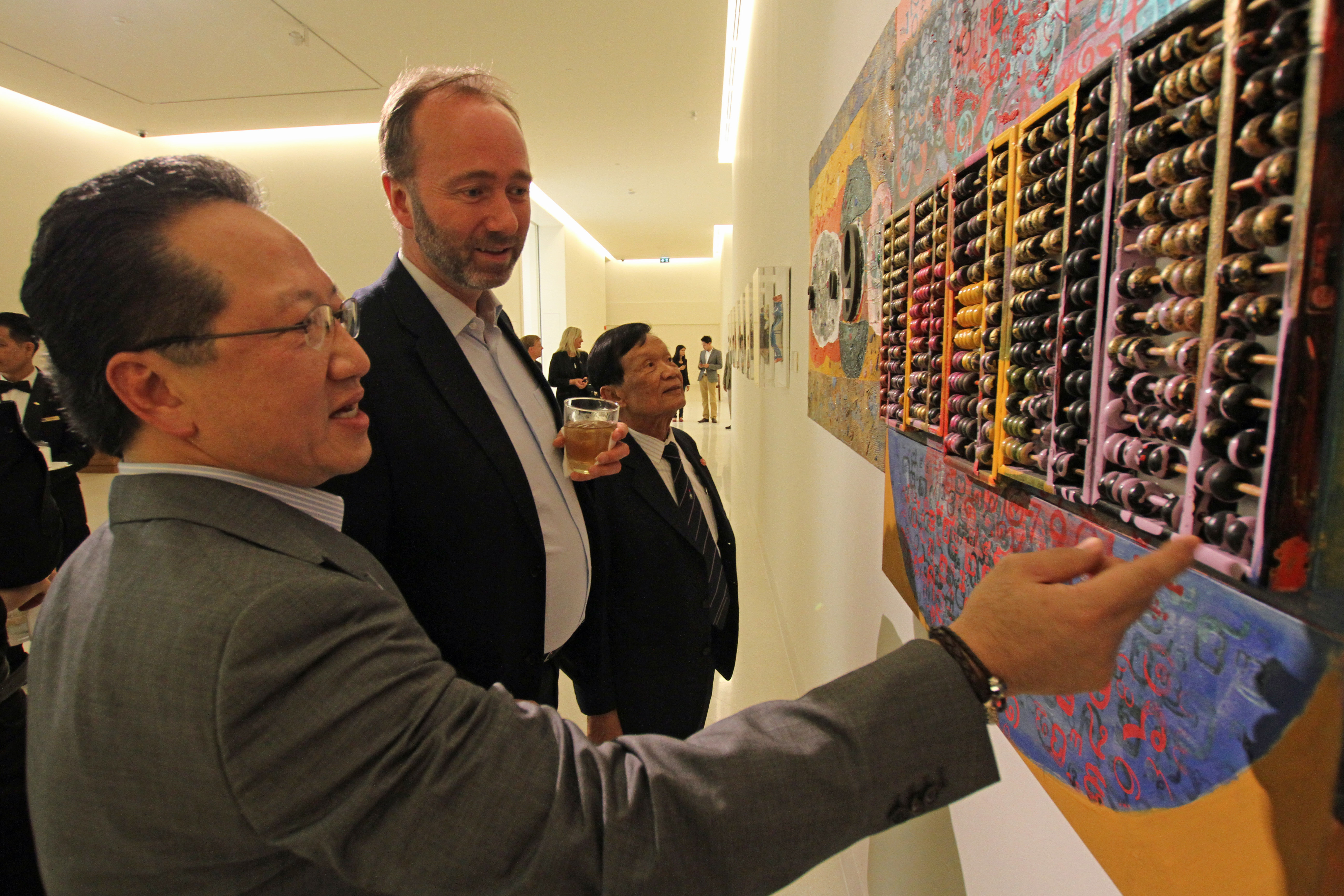 Boonchai Bencharongkul with Trond Giske at the Museum of Contemporary Art